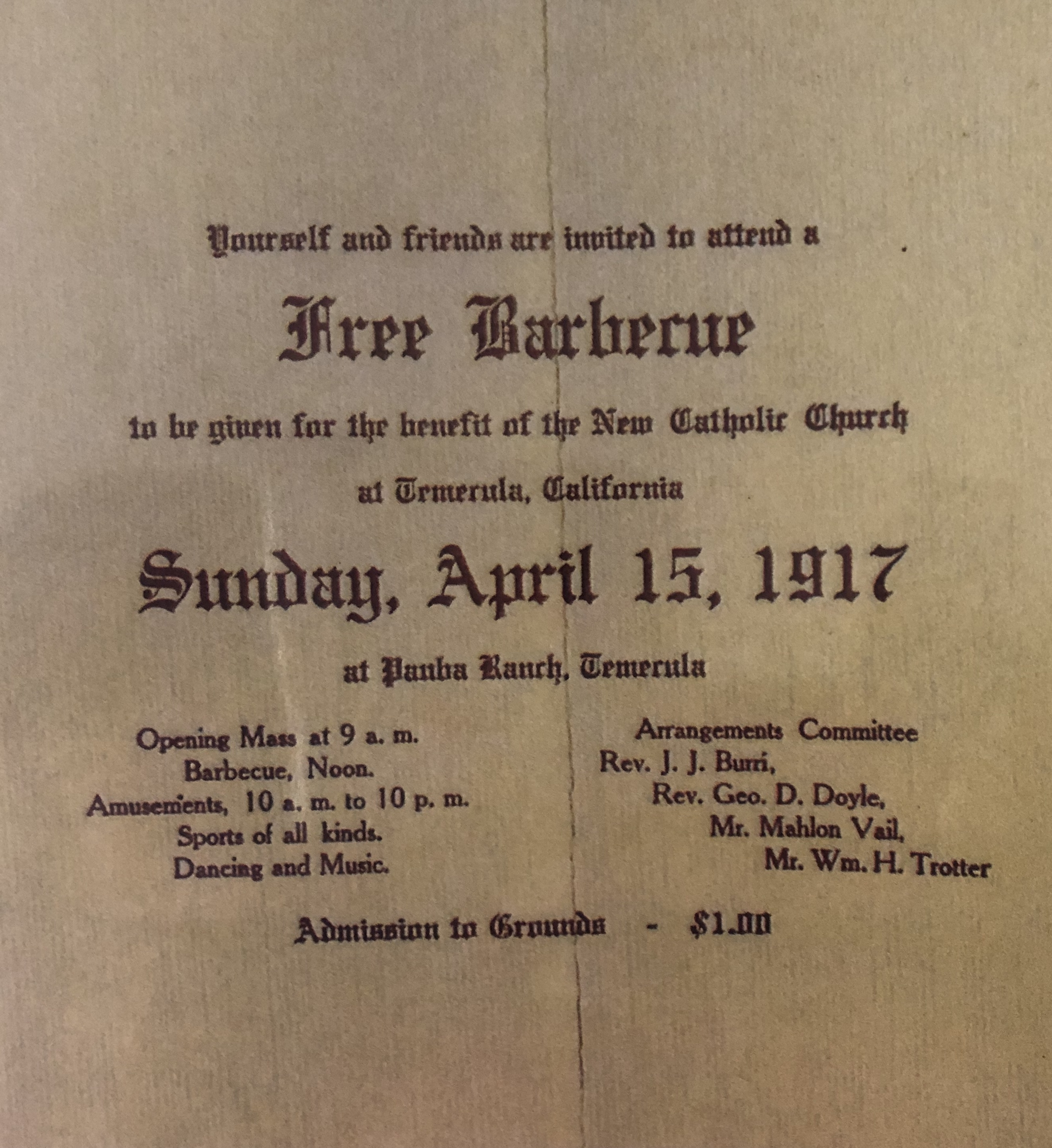 Cost was $1 to benefit the construction of Temecula’s first church, St. Katherine’s Catholic Church.